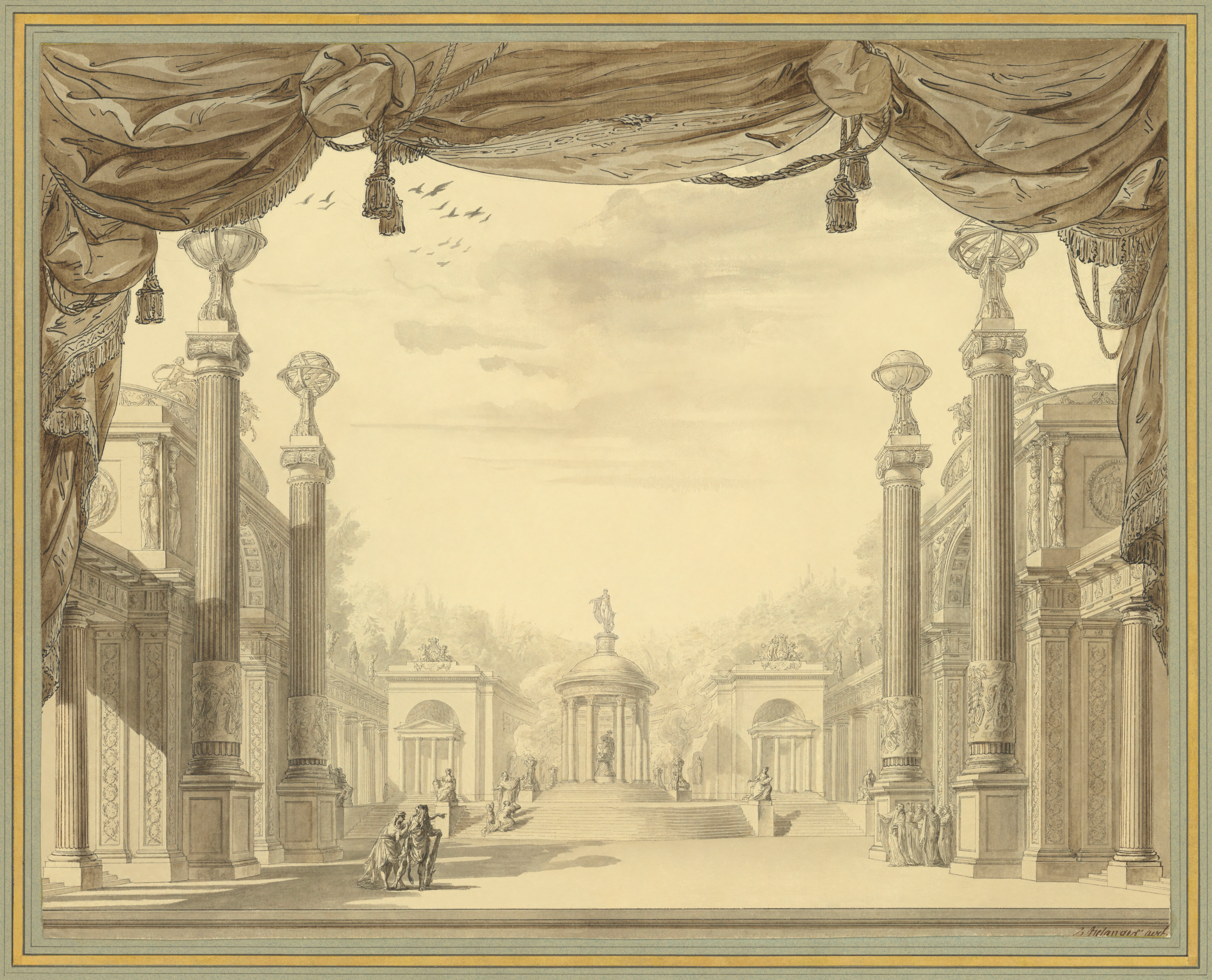 Set design for the 1776 première of the French version of Christoph Willibald Gluck's Alceste. Note Hercules in the left foreground, wearing the lionskin that traditionally marks him; He did not appear in the original Italian libretto.